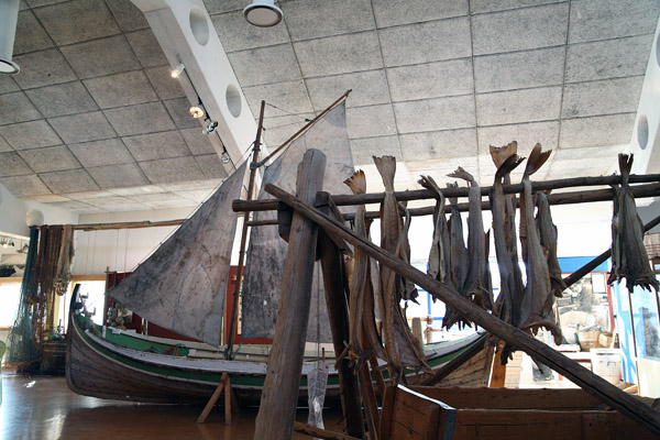 Nordkappmuseet, Honningsvåg, Honningsvåg.